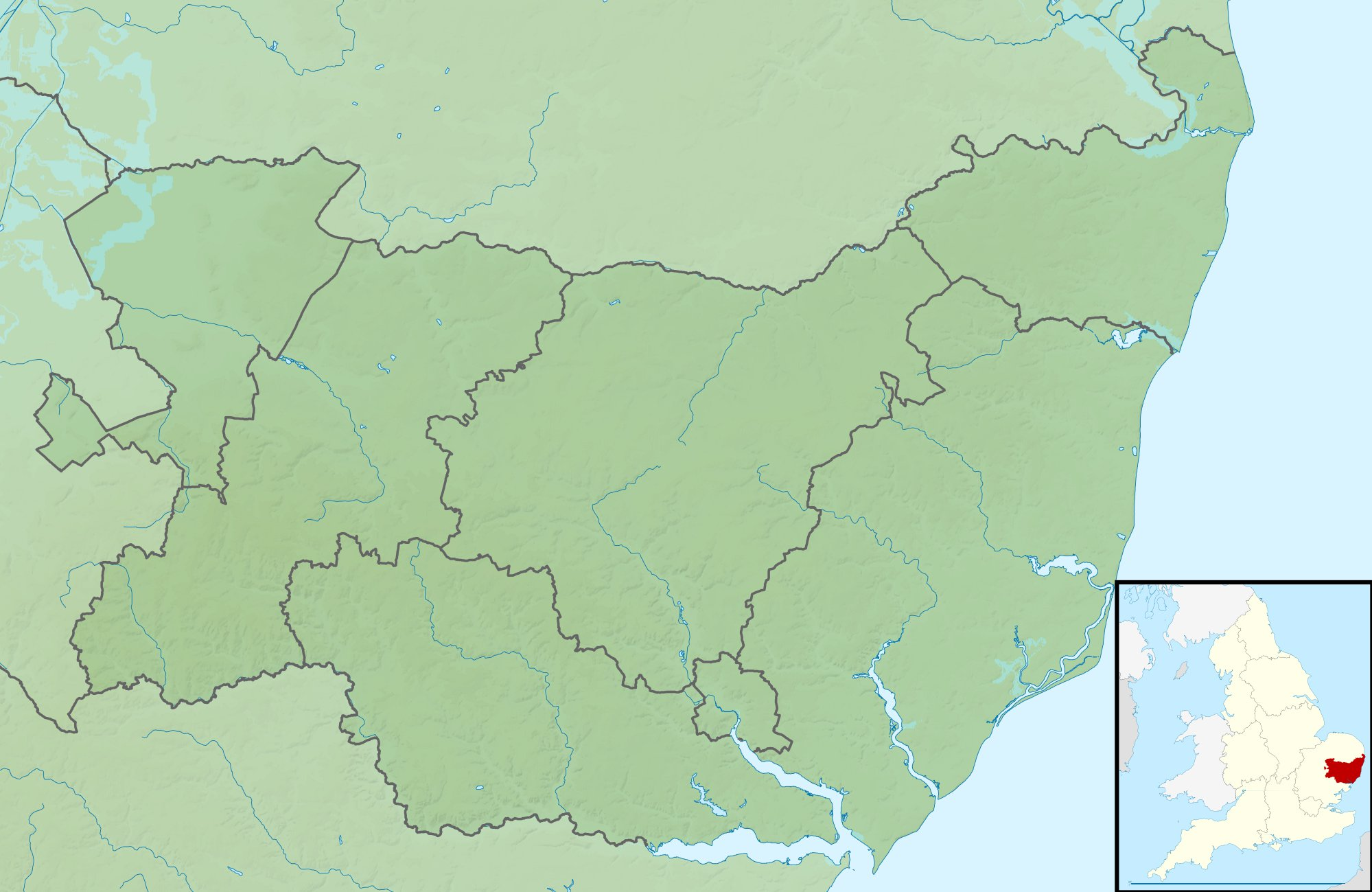 Relief map of Suffolk, UK. Equirectangular map projection on WGS 84 datum, with N/S stretched 160% Geographic limits: West: 0.30E East: 1.90E North: 52.57N South: 51.92N